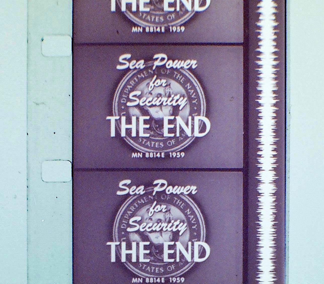 This photo was made by me and my wife, and is released into the public domain as far as we are concerned. The underlying image is part of an official U.S. Navy training film, and so would be considered a public work of and by the U.S. government. The picture shows a 16mm film, with sound track.